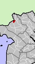 Chau Doc District, An Giang Province, Vietnam.